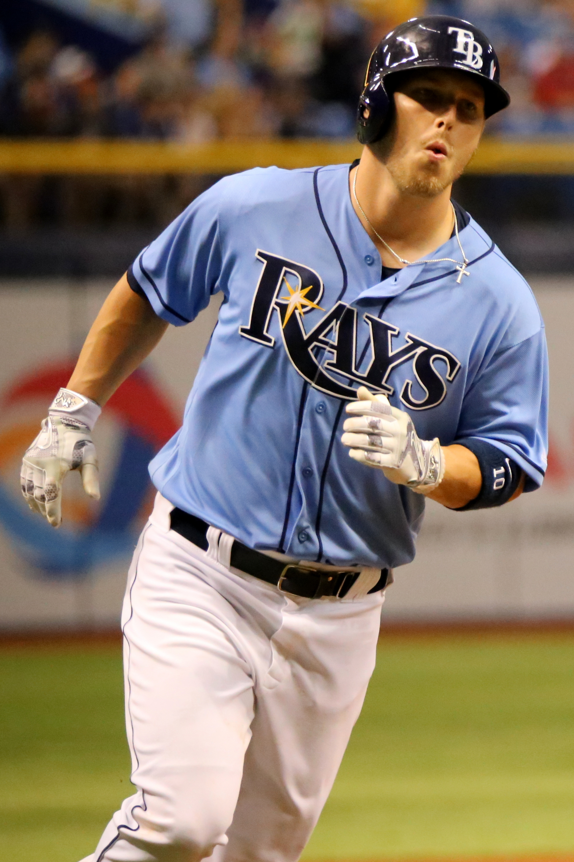 Corey Dickerson during the 2016 Tampa Bay Rays season